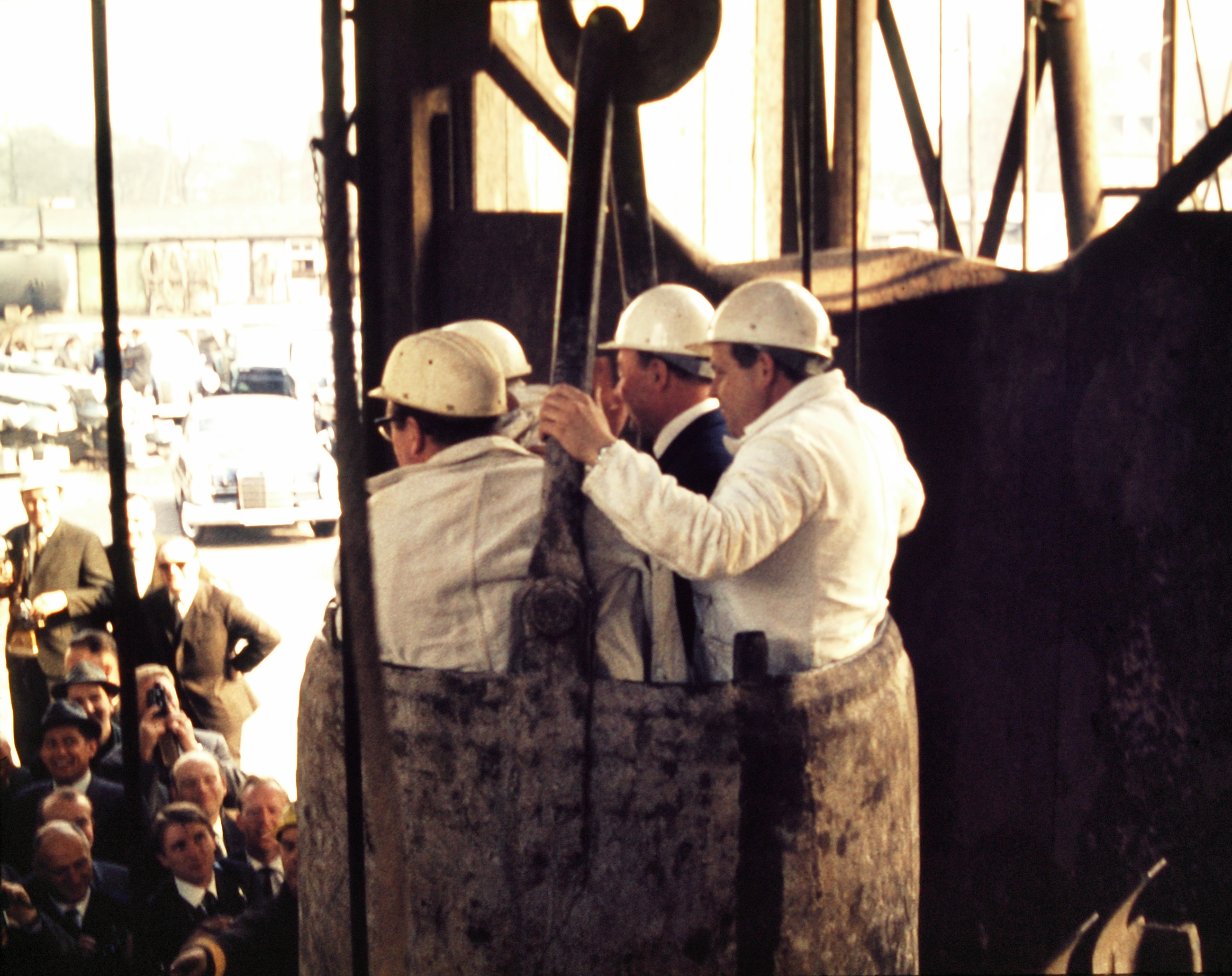 German chancellor Ludwig Erhard in a kibble, ready to go down for visiting shaft No. 6 of the Friedrich der Große (Frederick the Great) mine in Herne, Northrine-Westfalia, Germany. April 2, 1965.